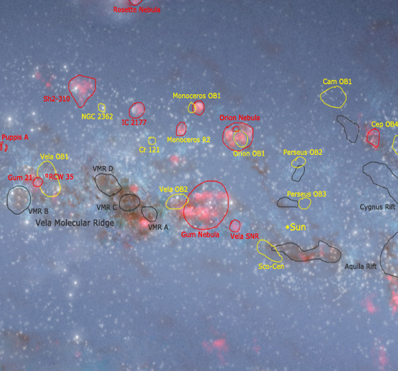 Map of Local Spur (Orion Arm) with Vela Molecular Ridge